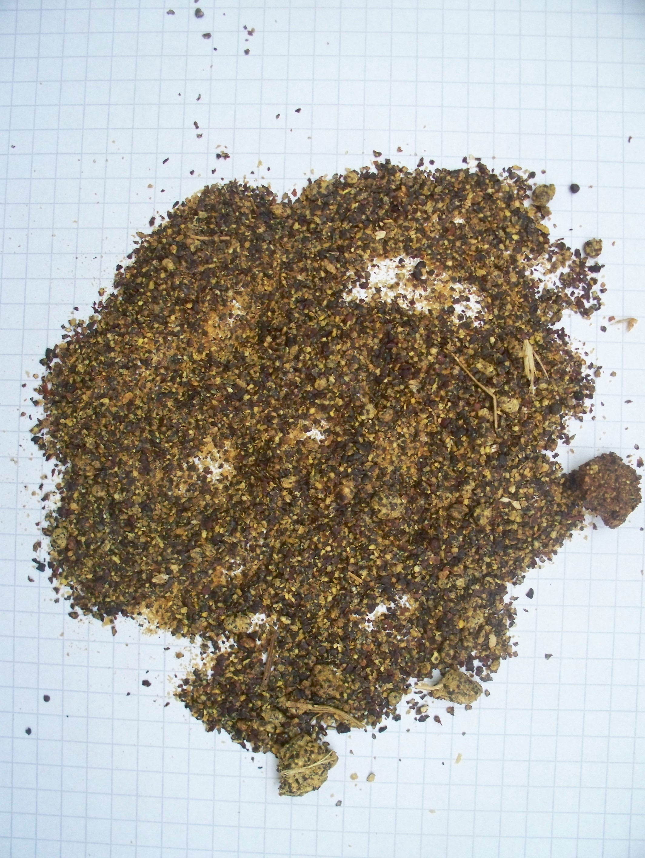 It is a product, who stay from grains after oil pressing process